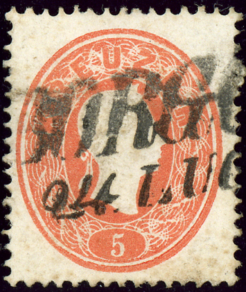 Austrian KK 5 kreuzer issue 1861 stamp, cancelled BORGO South Tyrol, Italy.